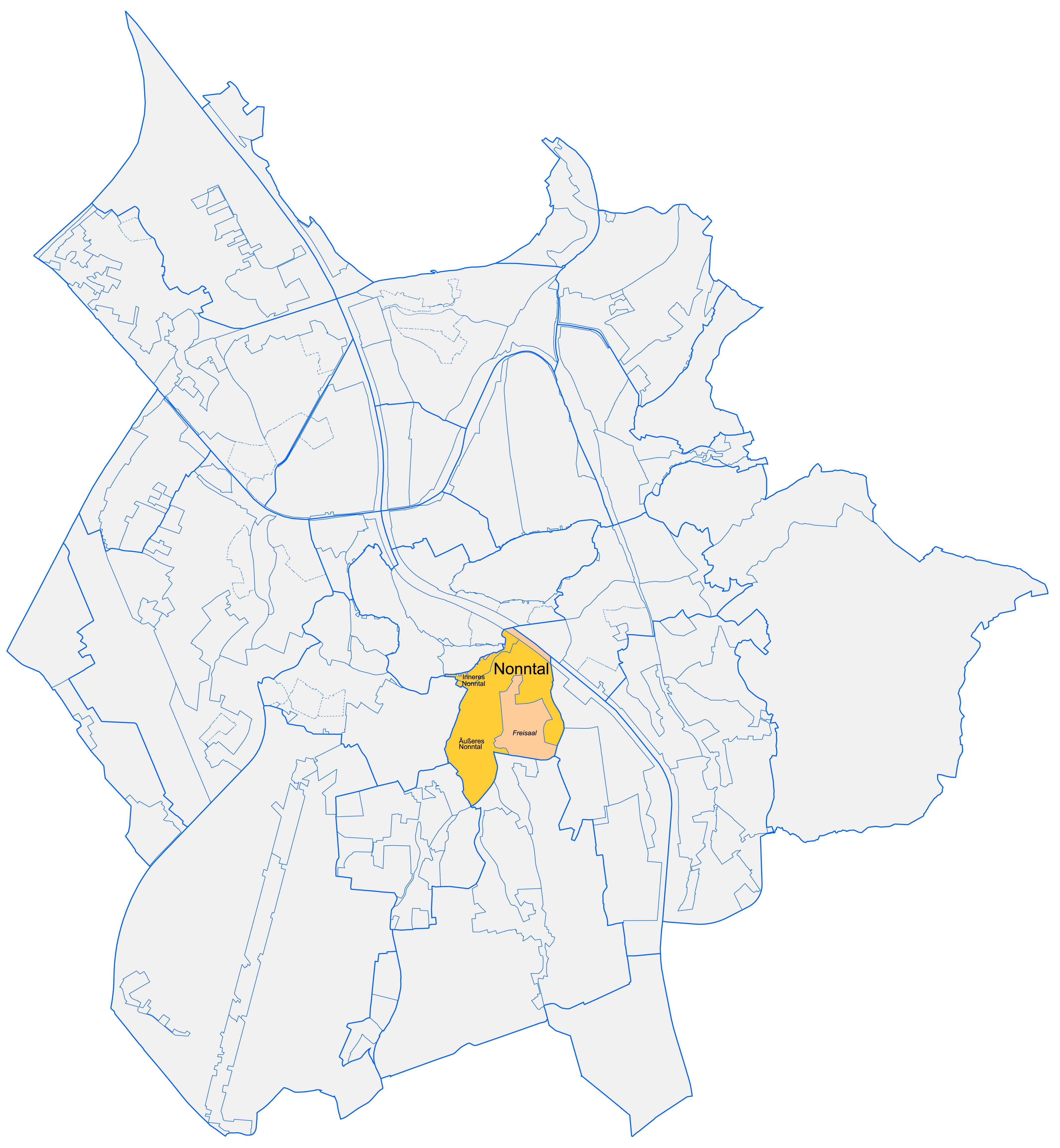 a quarter of the town of Salzburg: Nonntal